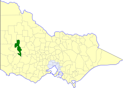 Location of the former Shire of Wimmera within Victoria.